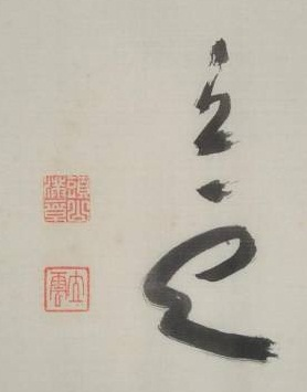 Mitsuru Tōyama's autograph